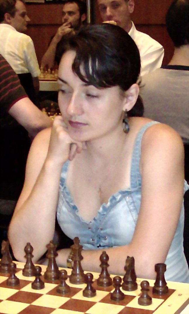 Kateryna Lahno, Ukrainian chess grandmaster